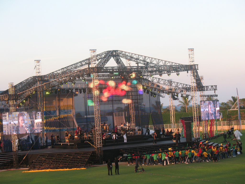 Cricket World Cup opening. Allison Hinds